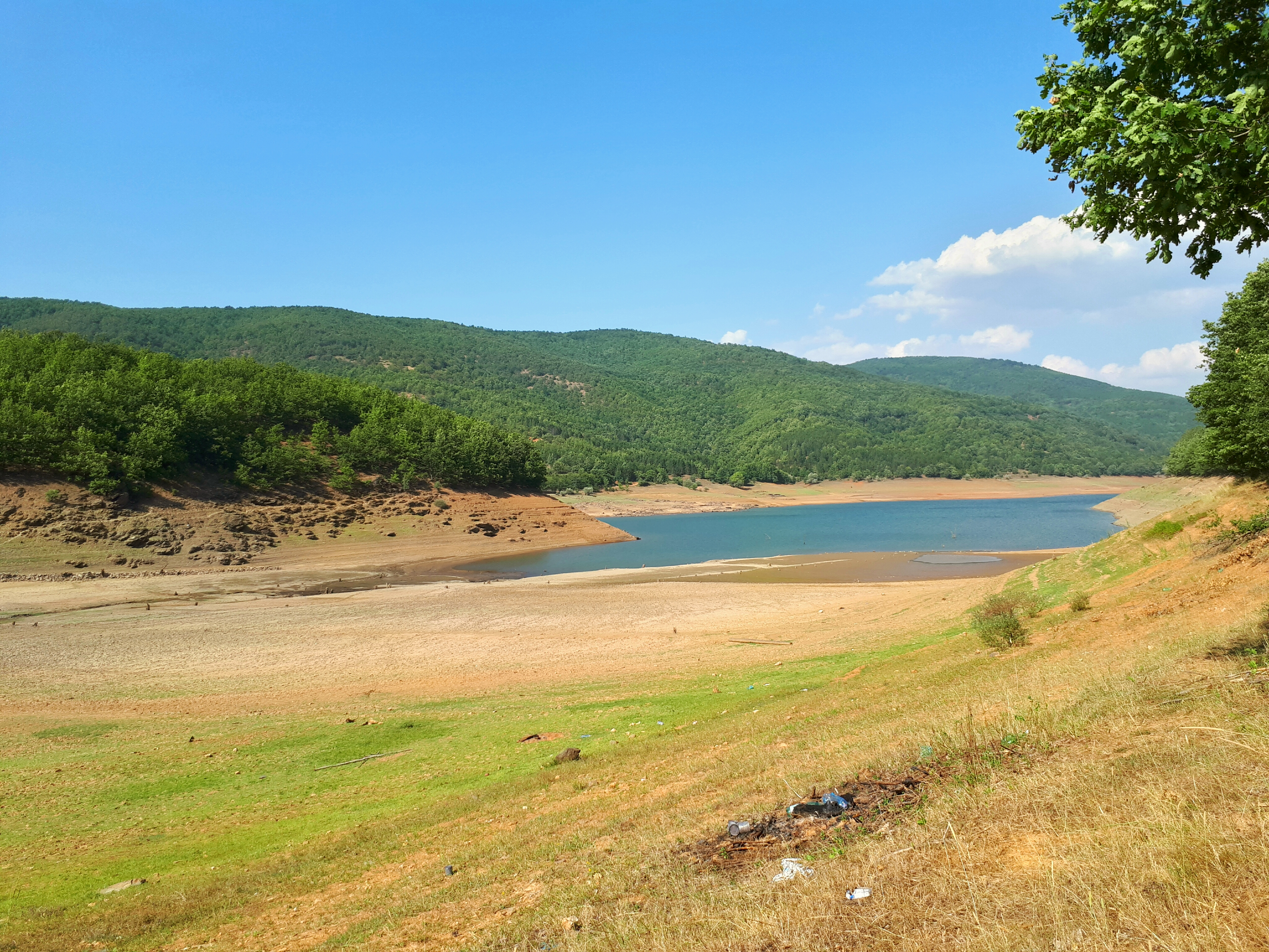 Part of the Veloexpedition in 2017